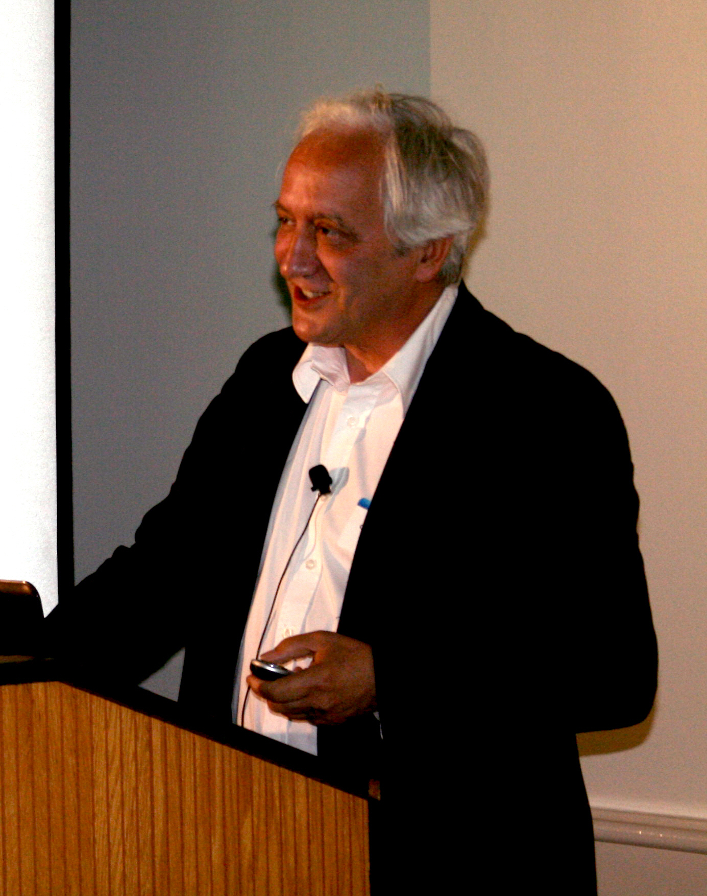 Charles Landry in July 2011